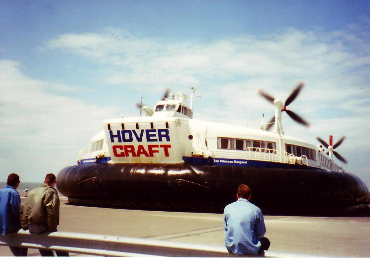 SR.N4 "The Princess Margaret" at Calais Hoverport